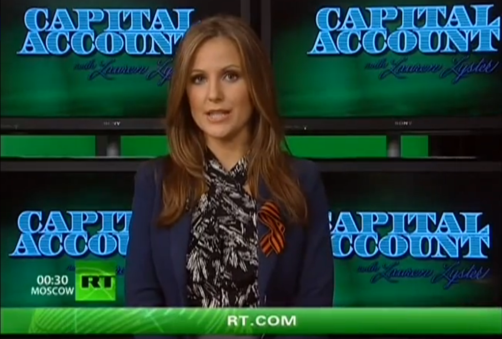 Lauren Lyster hosting Capital Account on RT. Crop from the video shown.